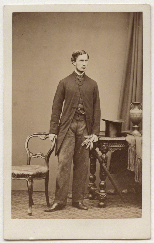 Charles Owen O'Conor by Thomas Cranfield